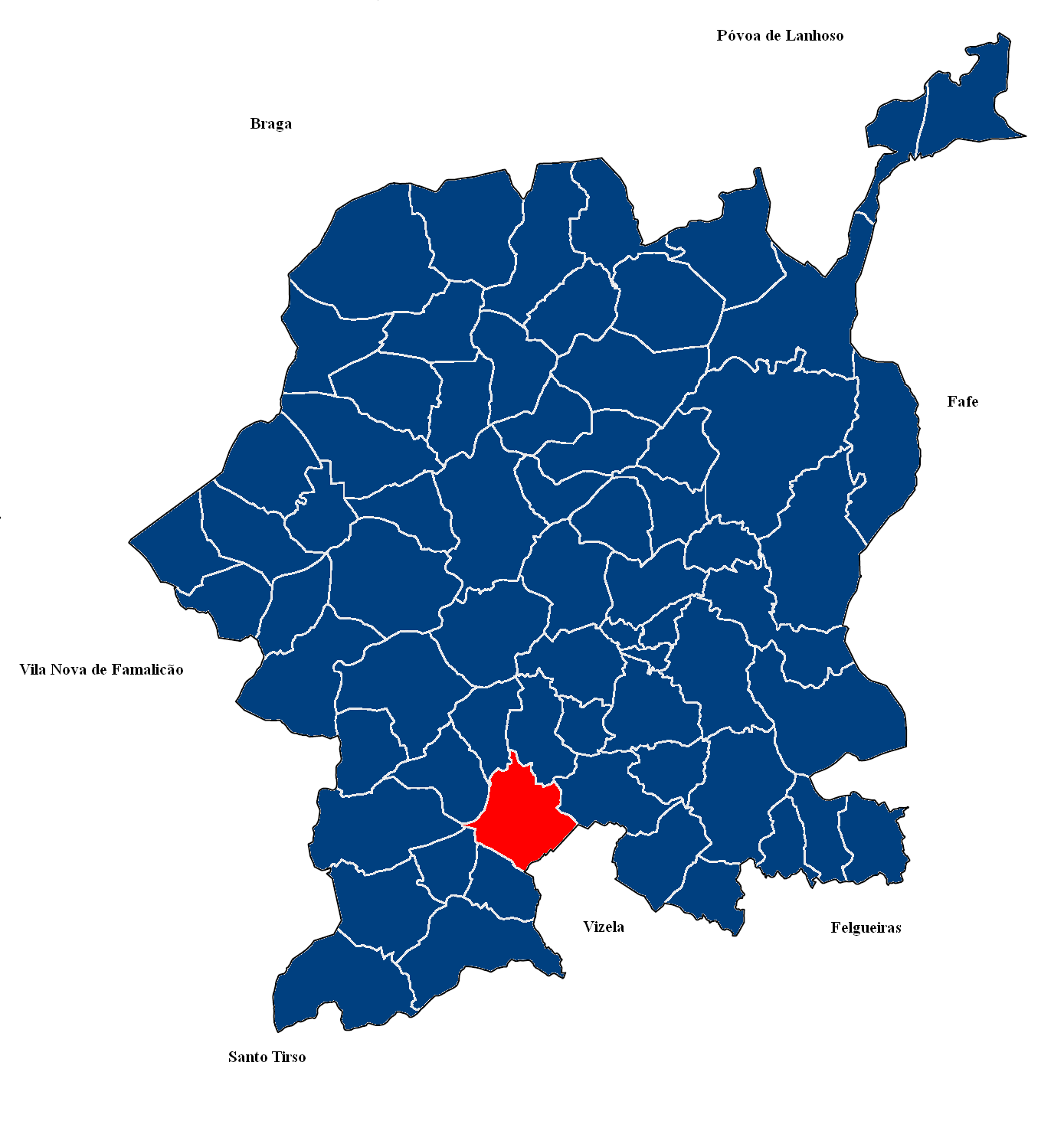 Map of Nespereira parish, Guimarães Municipality, Portugal